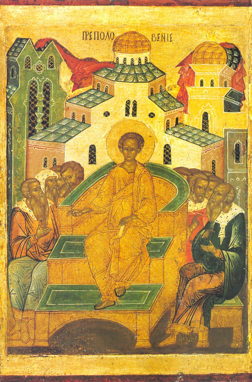 Prepoloveniye Pyatidesyatnitzy (Преполовение Пятидесятницы), or Meso-Pentecost - a feast observed between Easter and Pentecost. An icon of 15th century. Russia.